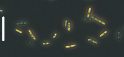 Fusarium brachygibbosum spores. Scale bar: 20 µm.